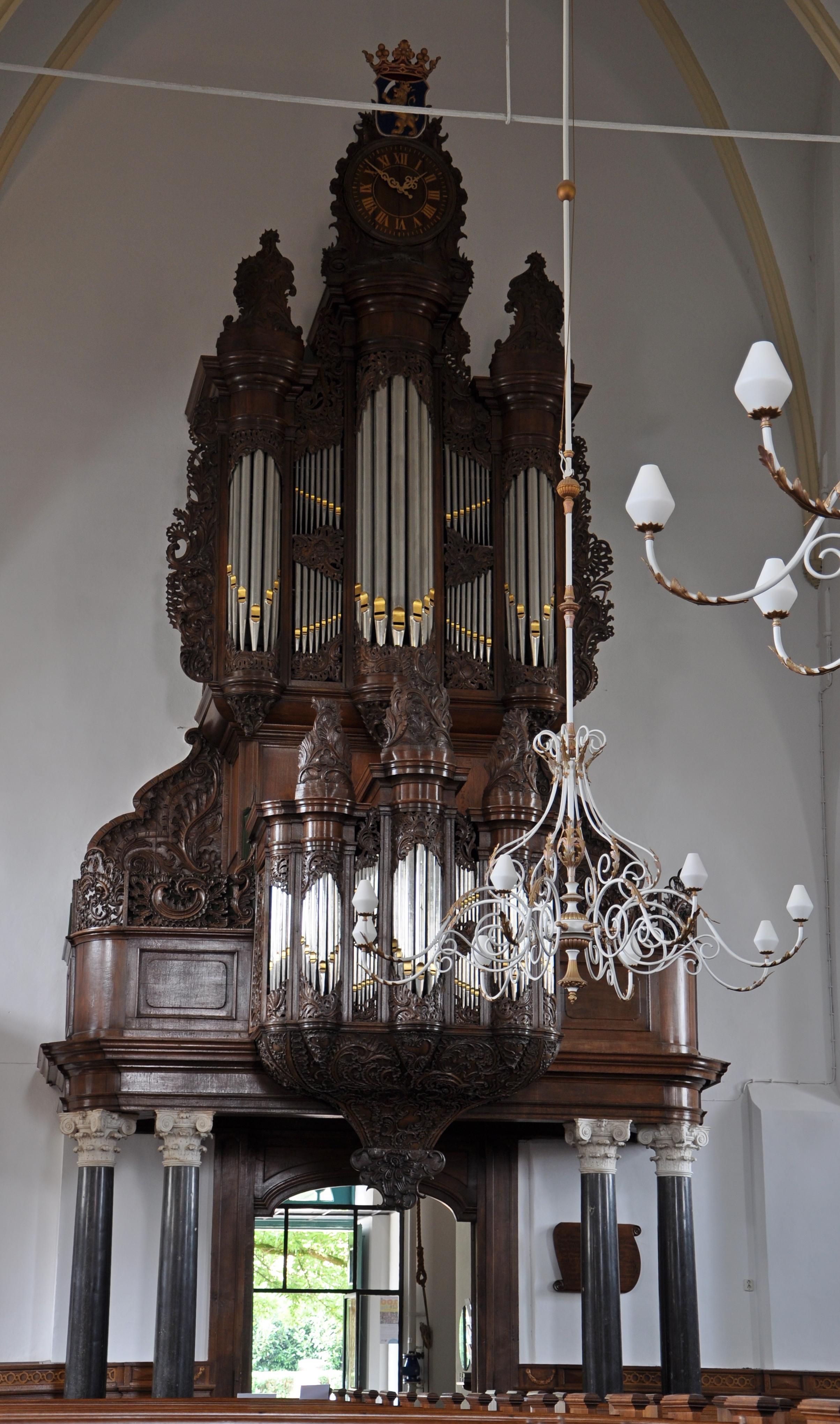 Organ at the Great Church at Nijkerk (the netherlands)